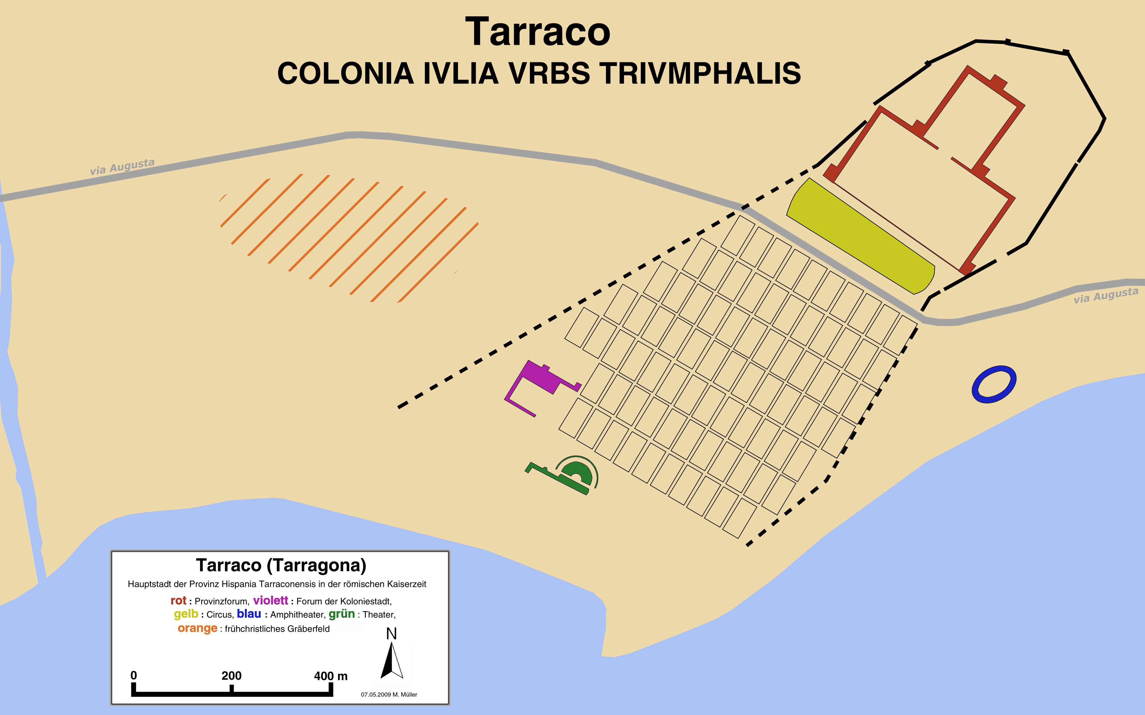 Map of the roman city of Tarraco, modern Tarragona (Catalonia).